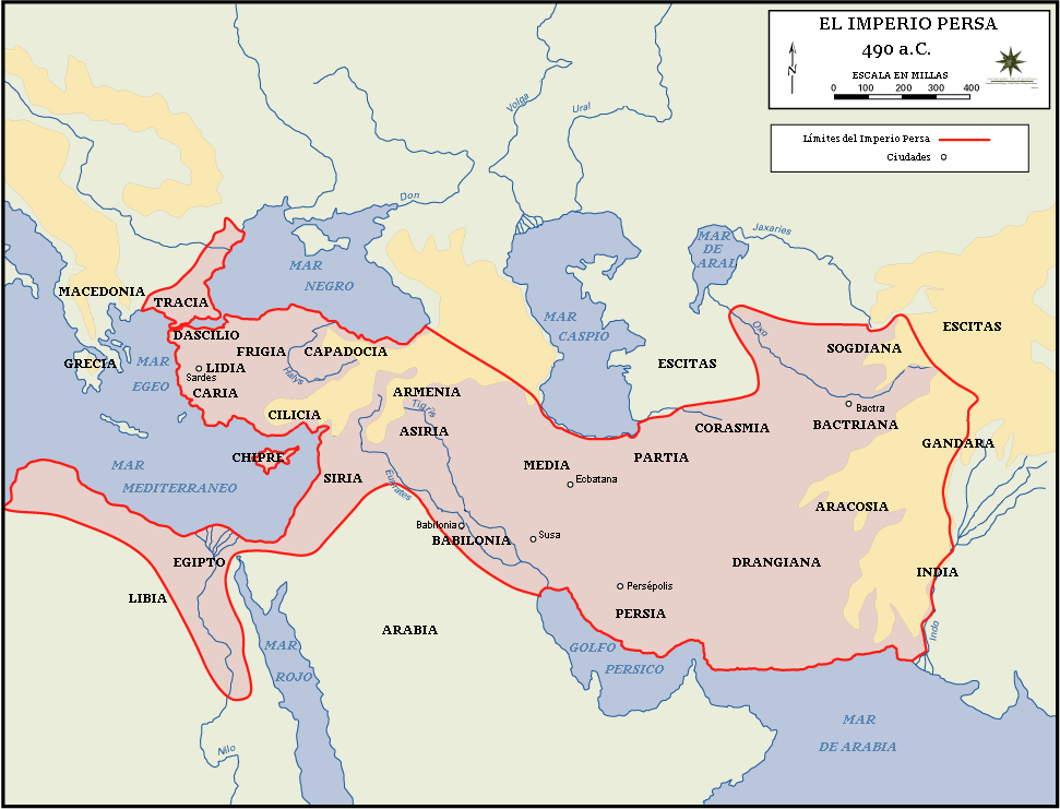 The Persian Empire in 490 BC. Spanish version Own work, based on a public domain image created by the Department of History, United States Military Academy, West Point.